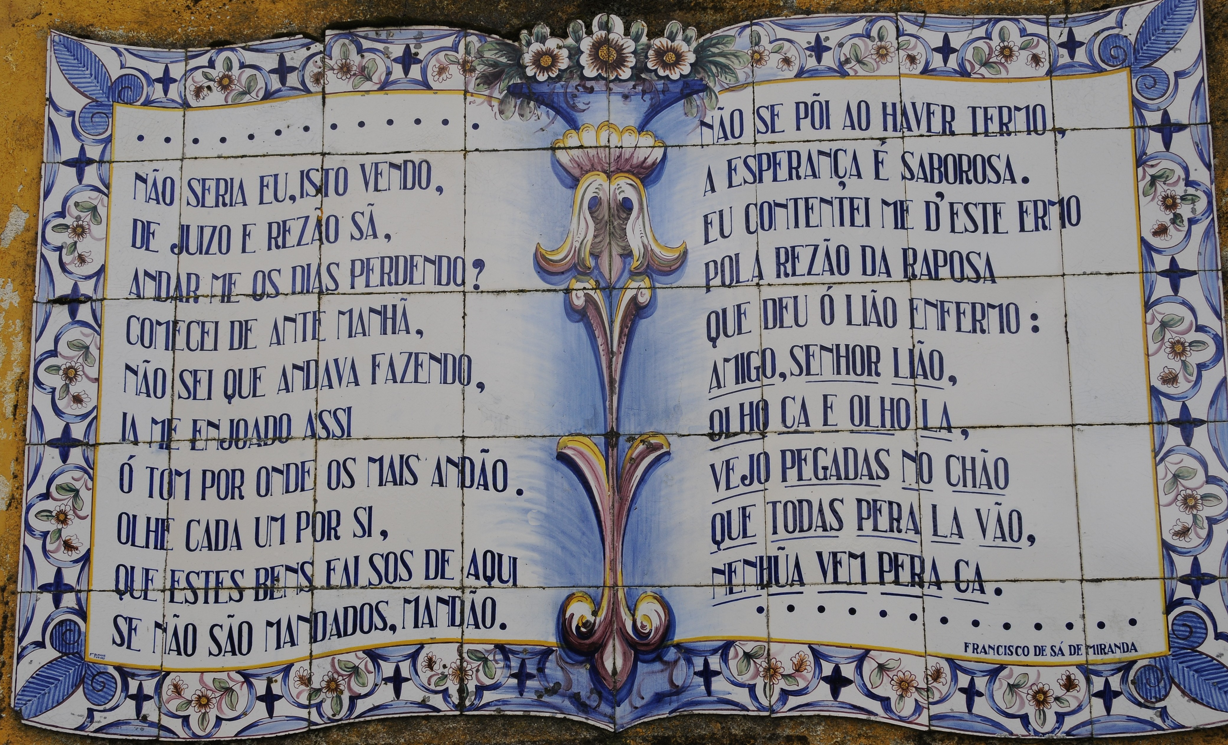 Azulejos in Casa do Barreiro, Gemieira, Viana do Castelo Portugal. A poem from Francisco Sá de Miranda.